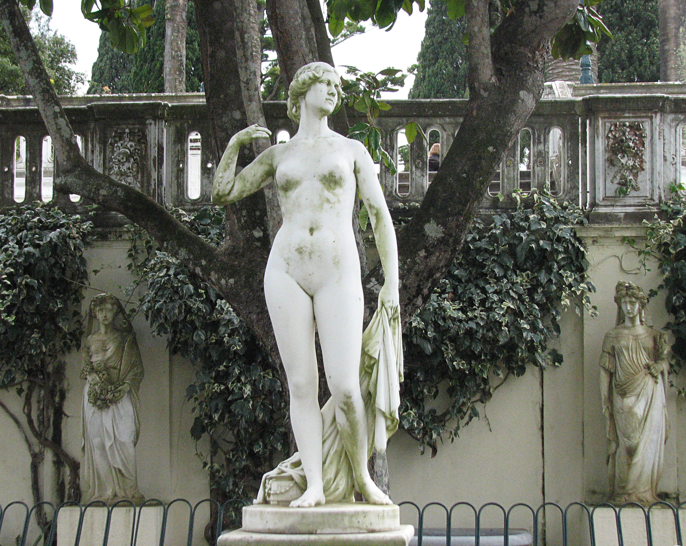 Phryne - Palace Achilleion (Corfu)